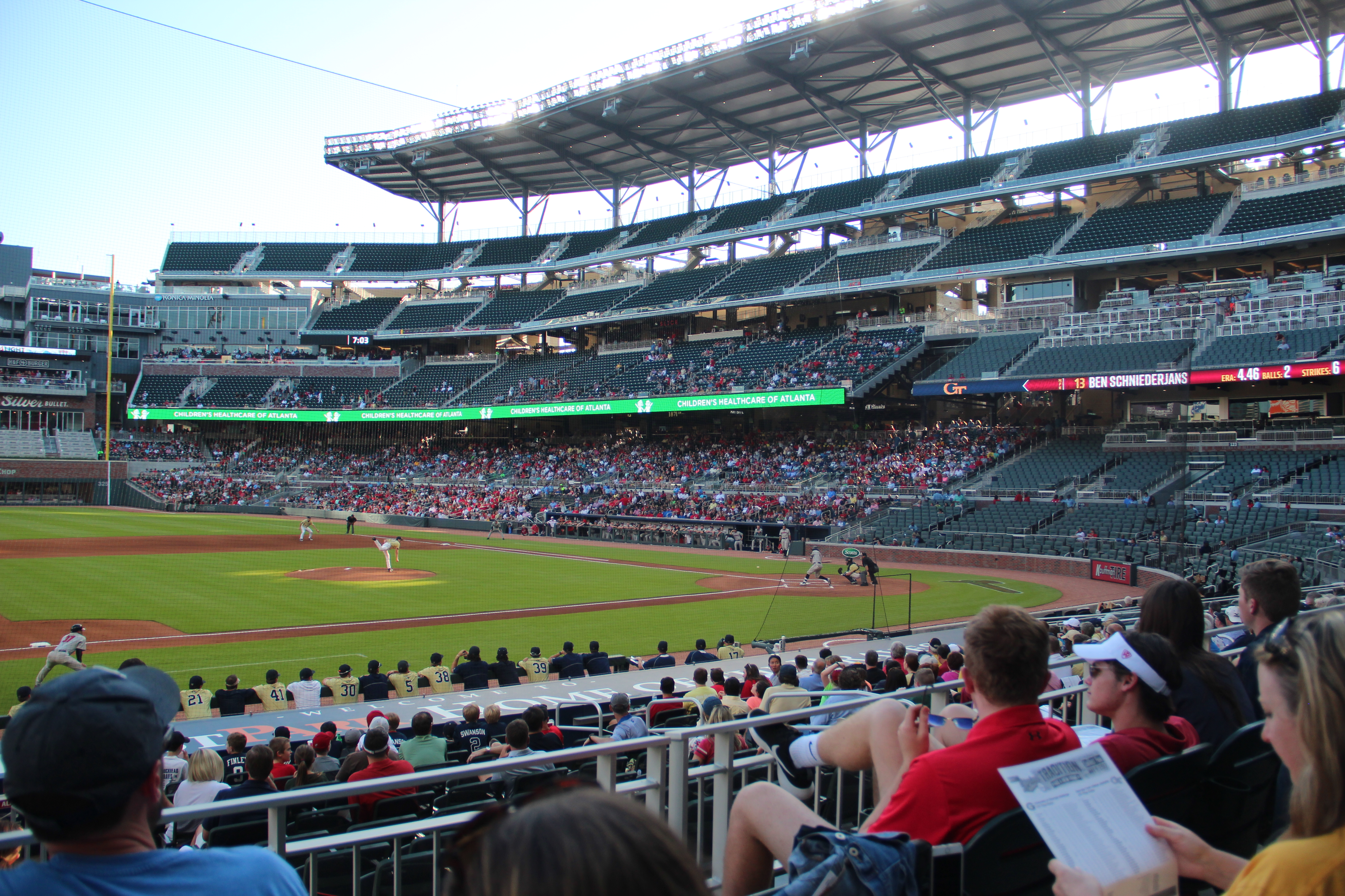 SunTrust Park seen from near 3B